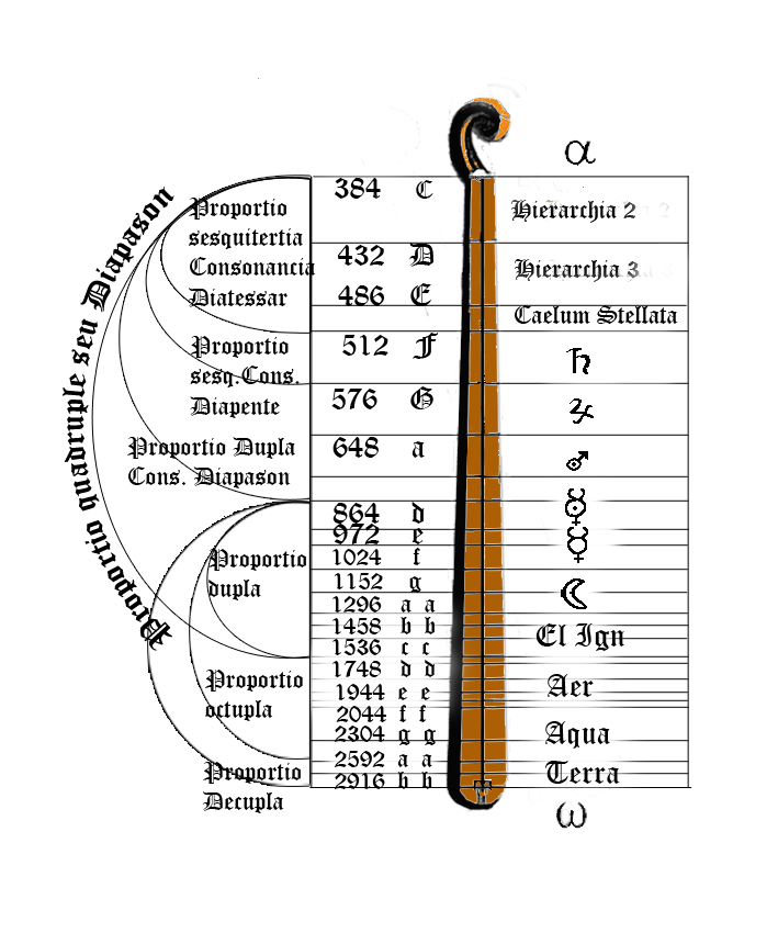 Monochord, proportions and relationships in the Middle Ages. Medieval musical instrument.